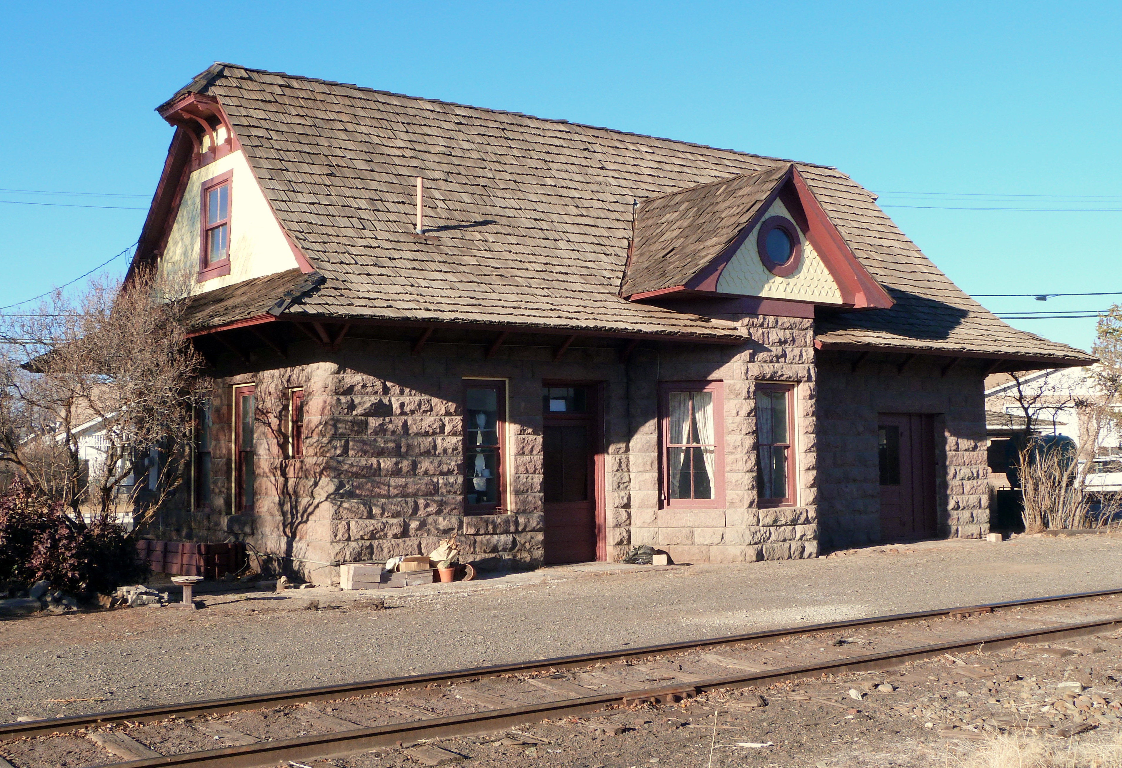 The historic Nevada–California–Oregon Railway Depot (built 1908), located at the corner of East and 3rd Streets in Alturas, California, United States, is listed on the US National Register of Historic Places.